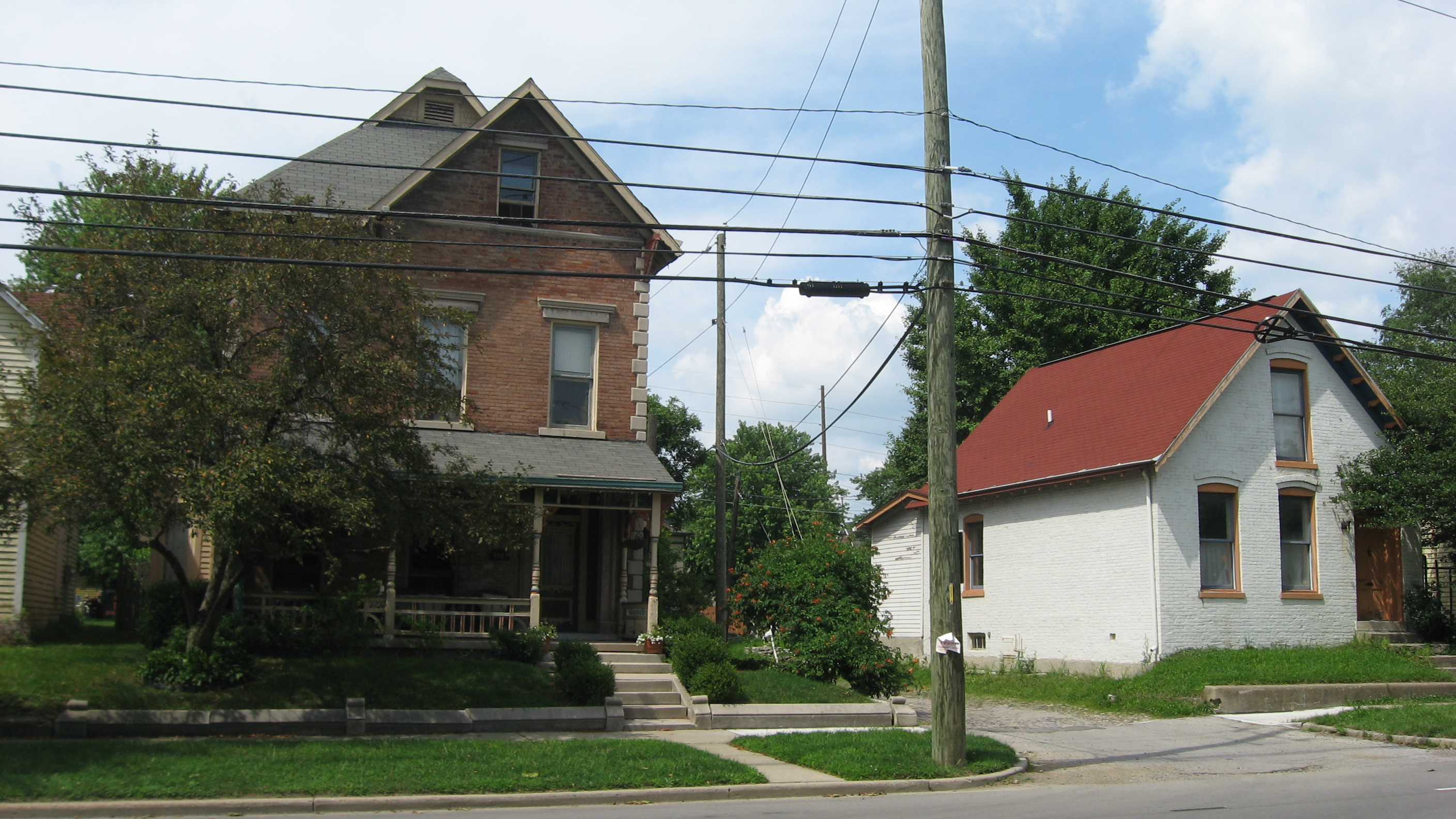 Houses on the northern side of E. Fletcher Avenue on either side of the Cincinnati Street intersection in Indianapolis, Indiana, United States. This block is part of the Fletcher Place Historic District, a historic district that is listed on the National Register of Historic Places.